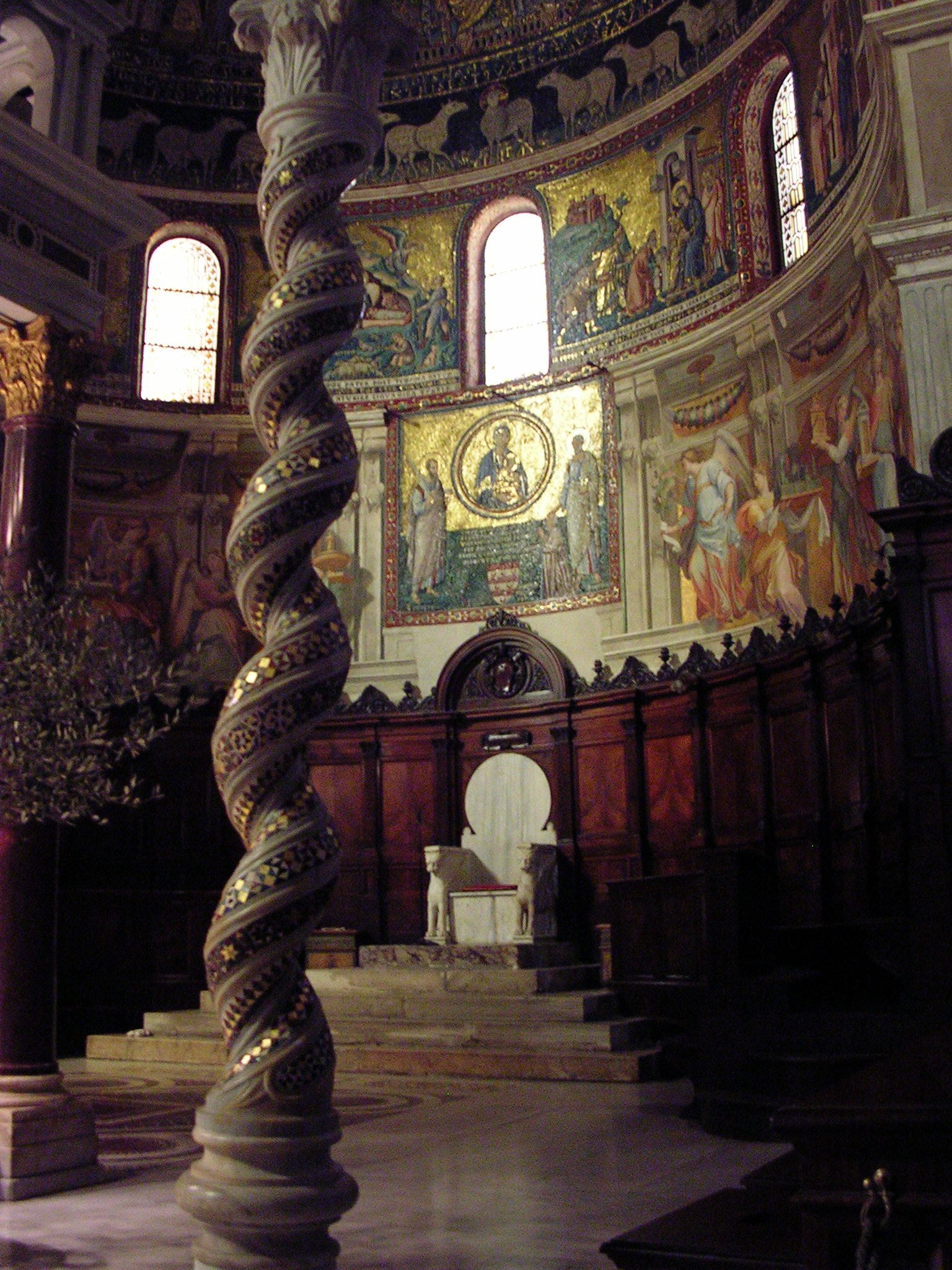 High place in Santa Maria in Trastevere (Rome)